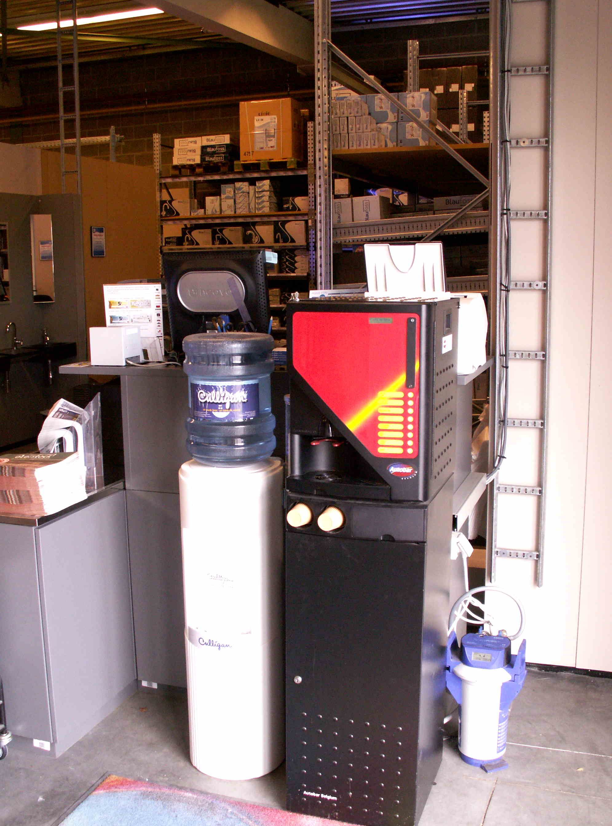 A picture of a coffee vending machine and water dispenser. The machines are located in an office.